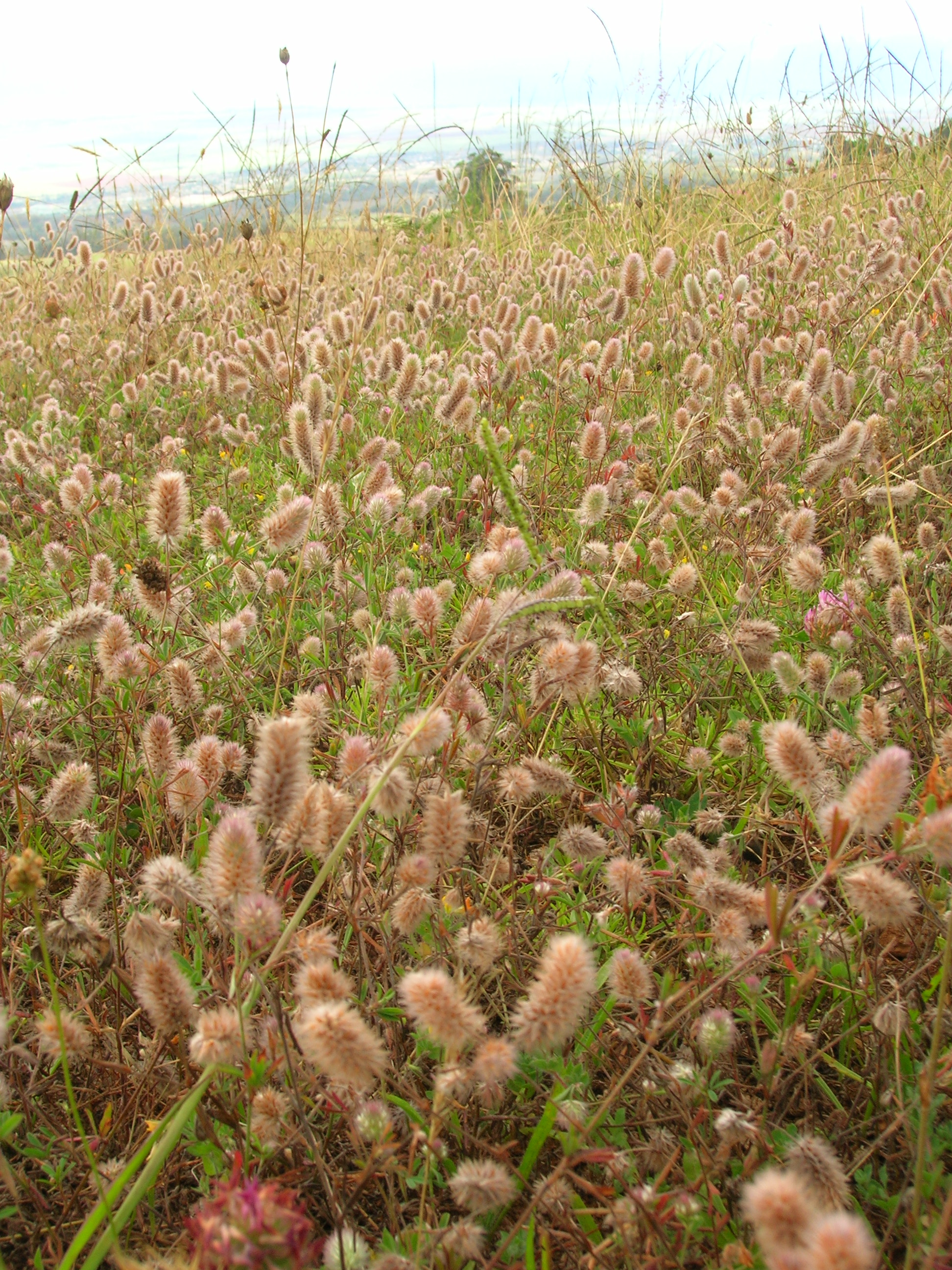 Trifolium arvense (habit). Location: Maui, Waiale Gulch